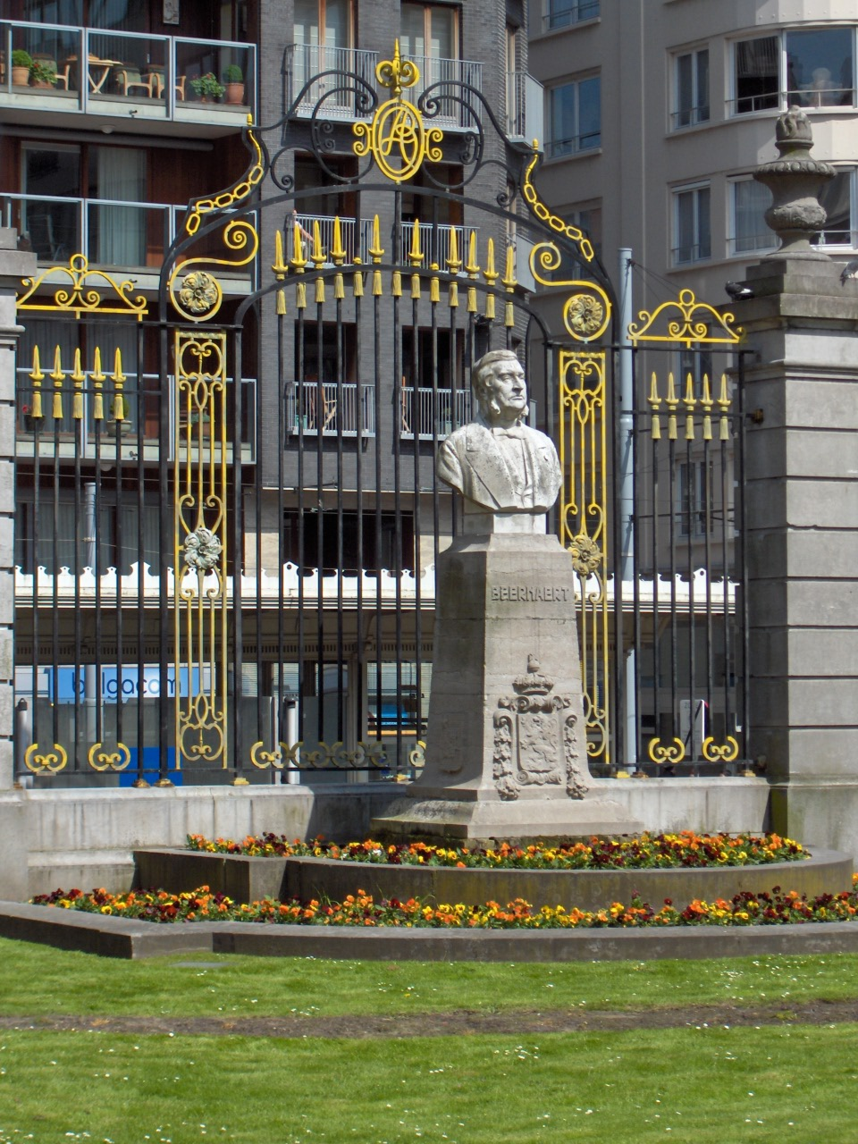 Auguste Beernaert (1829-1912), Belgian politician and prime minister; winner of the Nobel Prize for Peace in 1909 Statue by Louis Mascré (1871-1929) in Oostende, Belgium